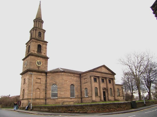 St Peter and St Leonard Horbury, near to Horbury, Wakefield, Great Britain. St Peter and St Leonard was financed designed and built in 1793 by John Carr of York the famous architect who was actually born in Horbury in 1723 and died in 1807 and buried in the church